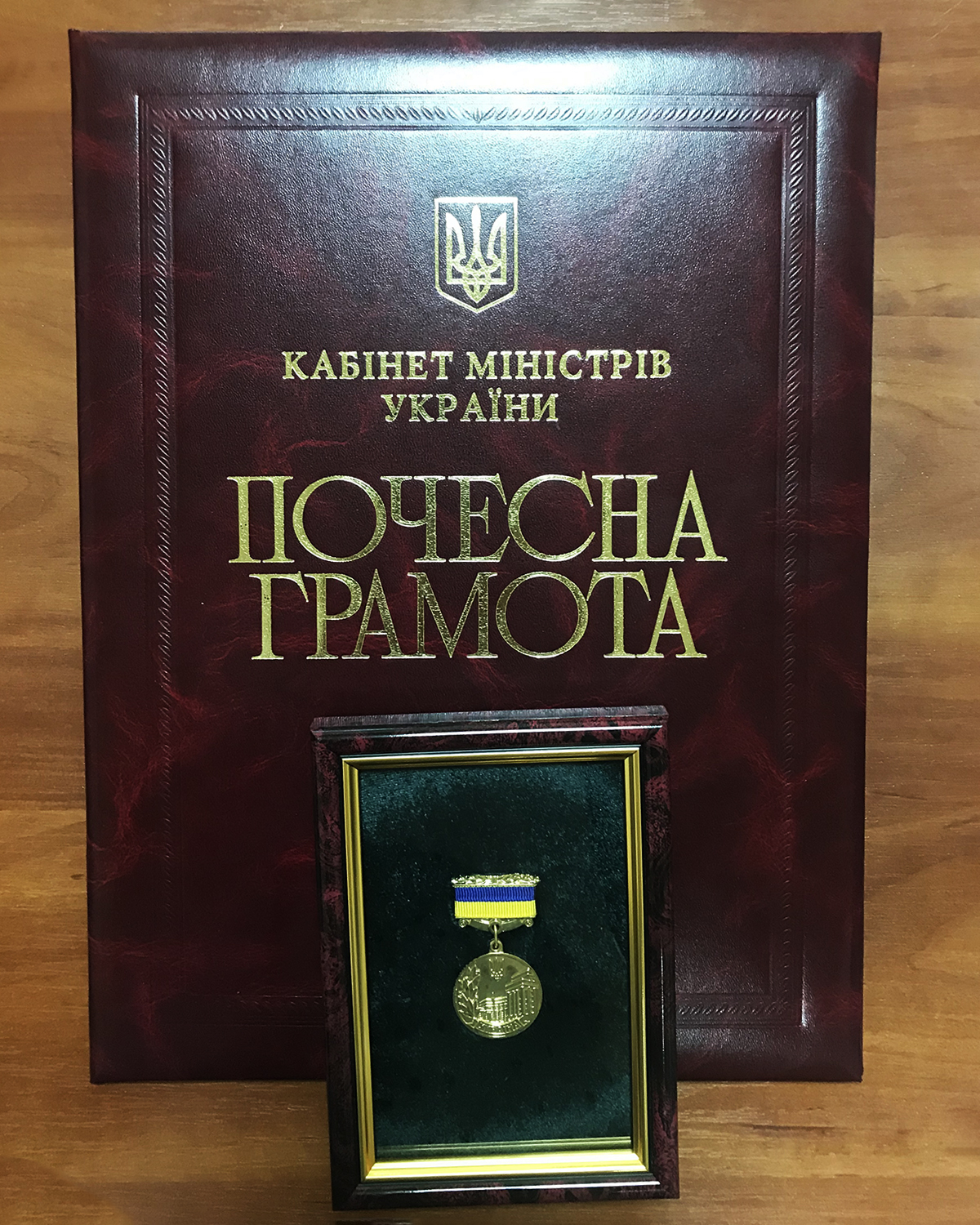 Почесна Грамота Кабінету Міністрів України